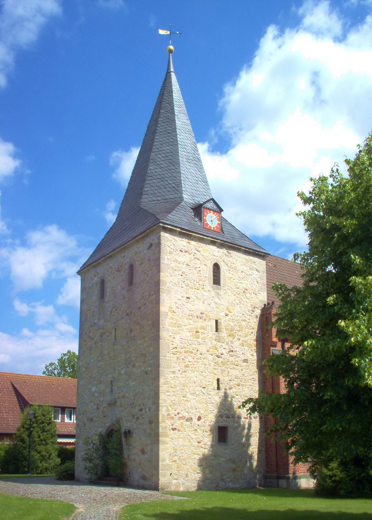 southwest view of the Rethen church (Vordorf, Lower Saxony, Germany)